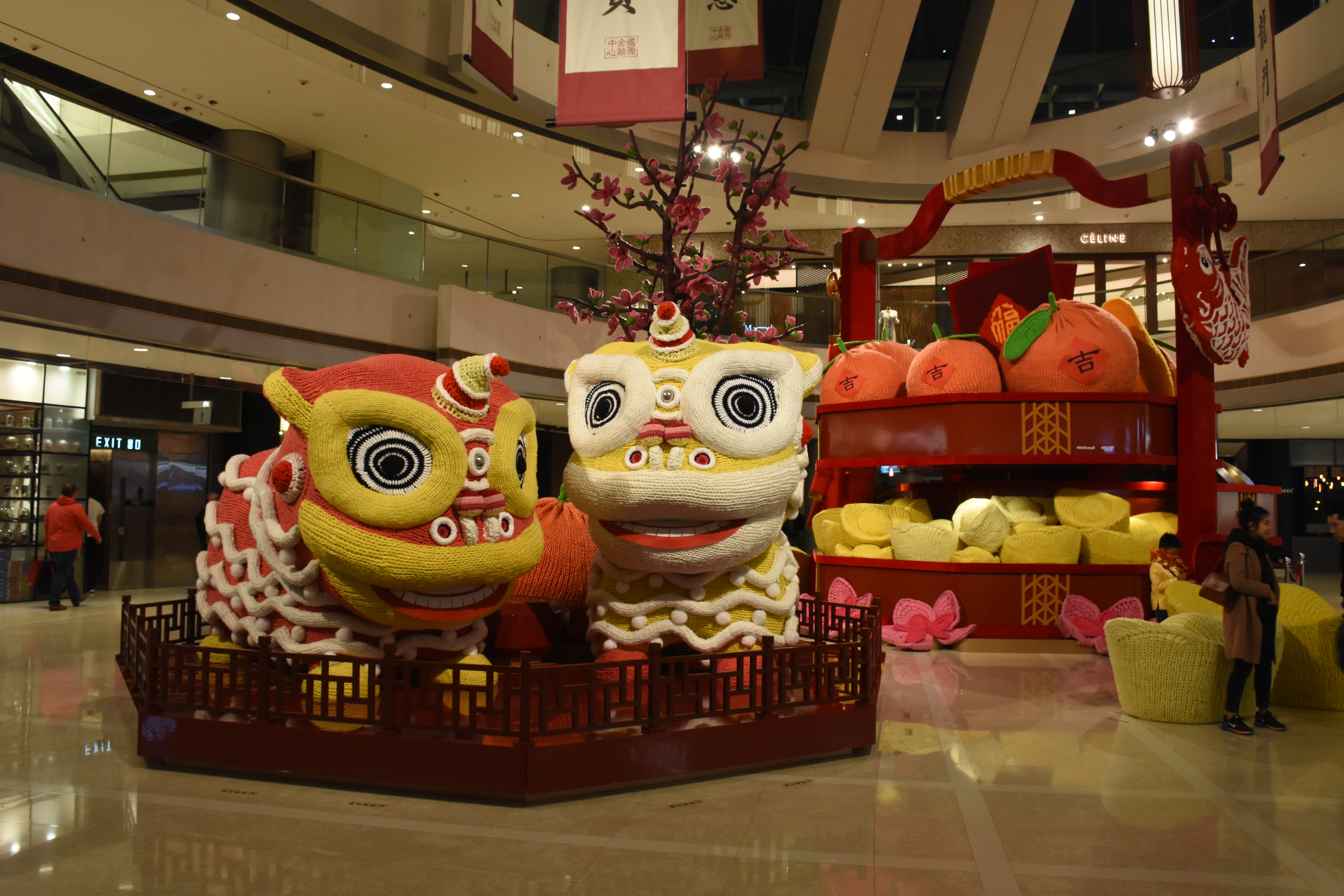 Lunar New Year decoration of IFC mall in 2017